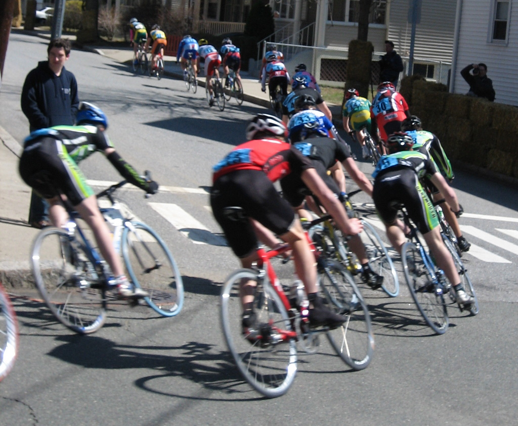 Photo of a criterium road bicycle race. Boston Beanpot collegiate cycling weekend, Tufts University criterium race Image taken 8 MAY 2006 in Sommerville, MA by Joshua Furman on a Canon PowerShot SD400, focal length 54mm, 1/250s, f7.1. Image to be included in article on Criterium bike racing.